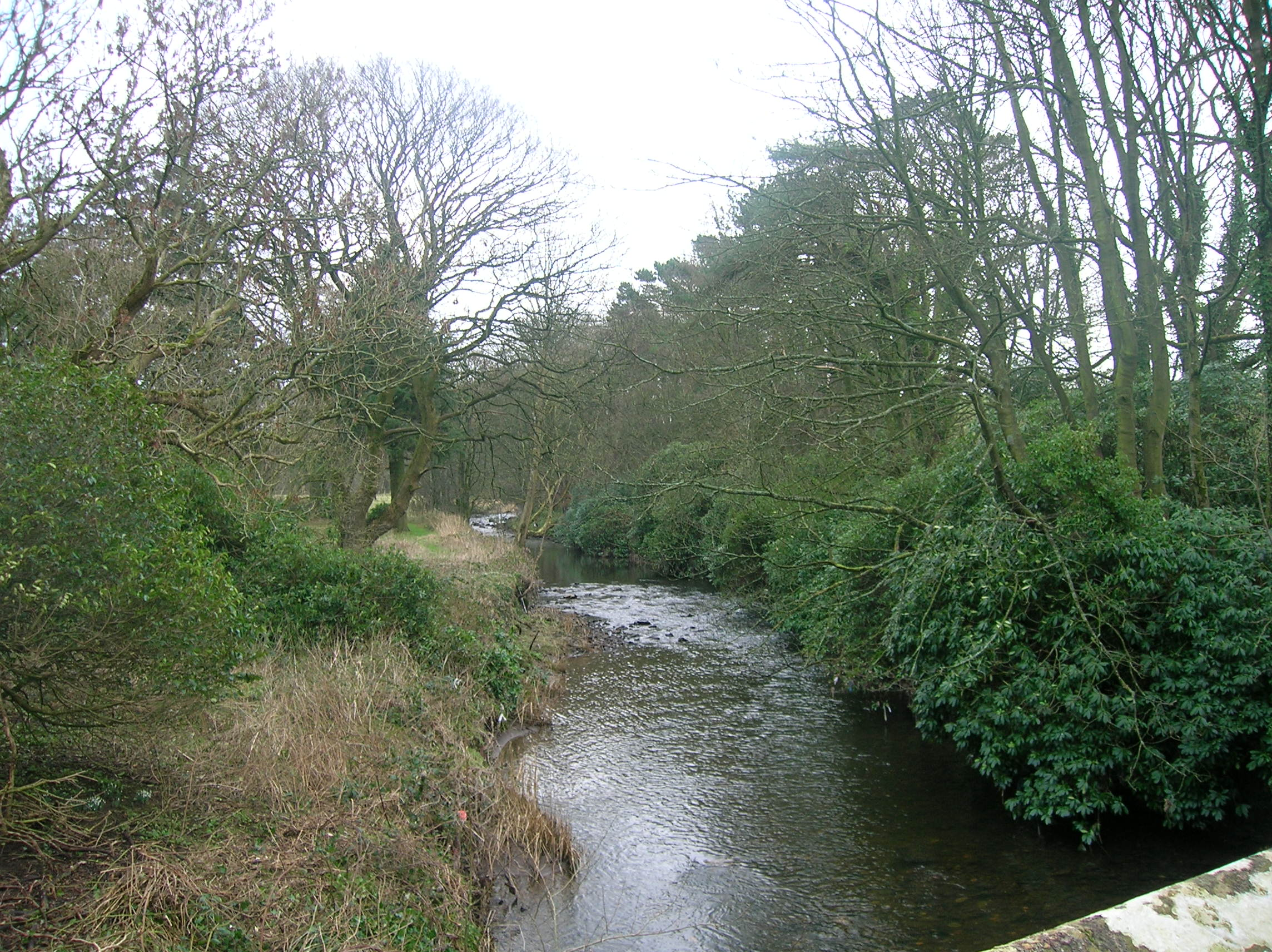 The Annick Water looking upriver from Chapeltoun Bridge in January 2007